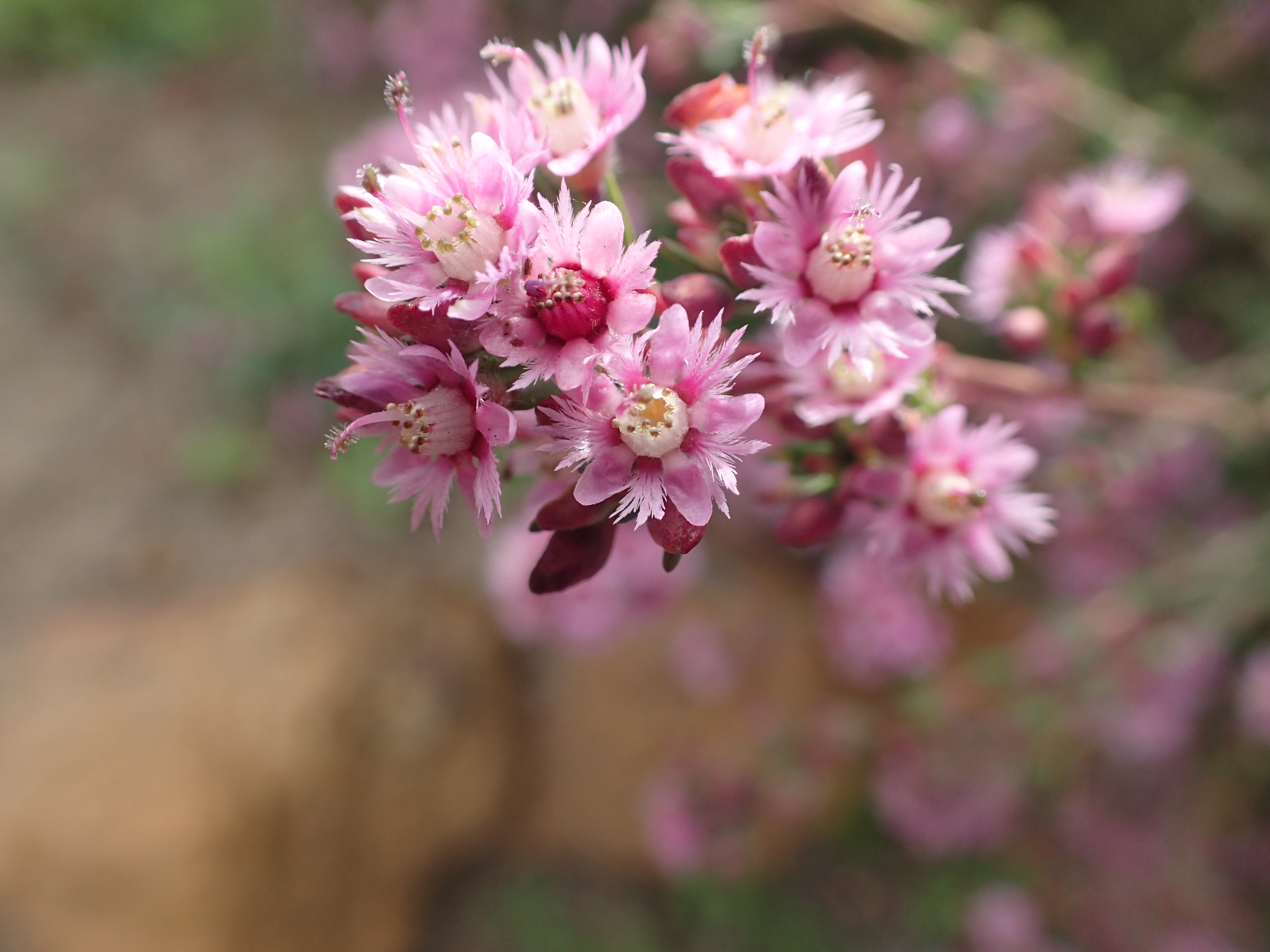 Close-up of Verticordia plumosa flowers at the Ongerup Wildflower Show